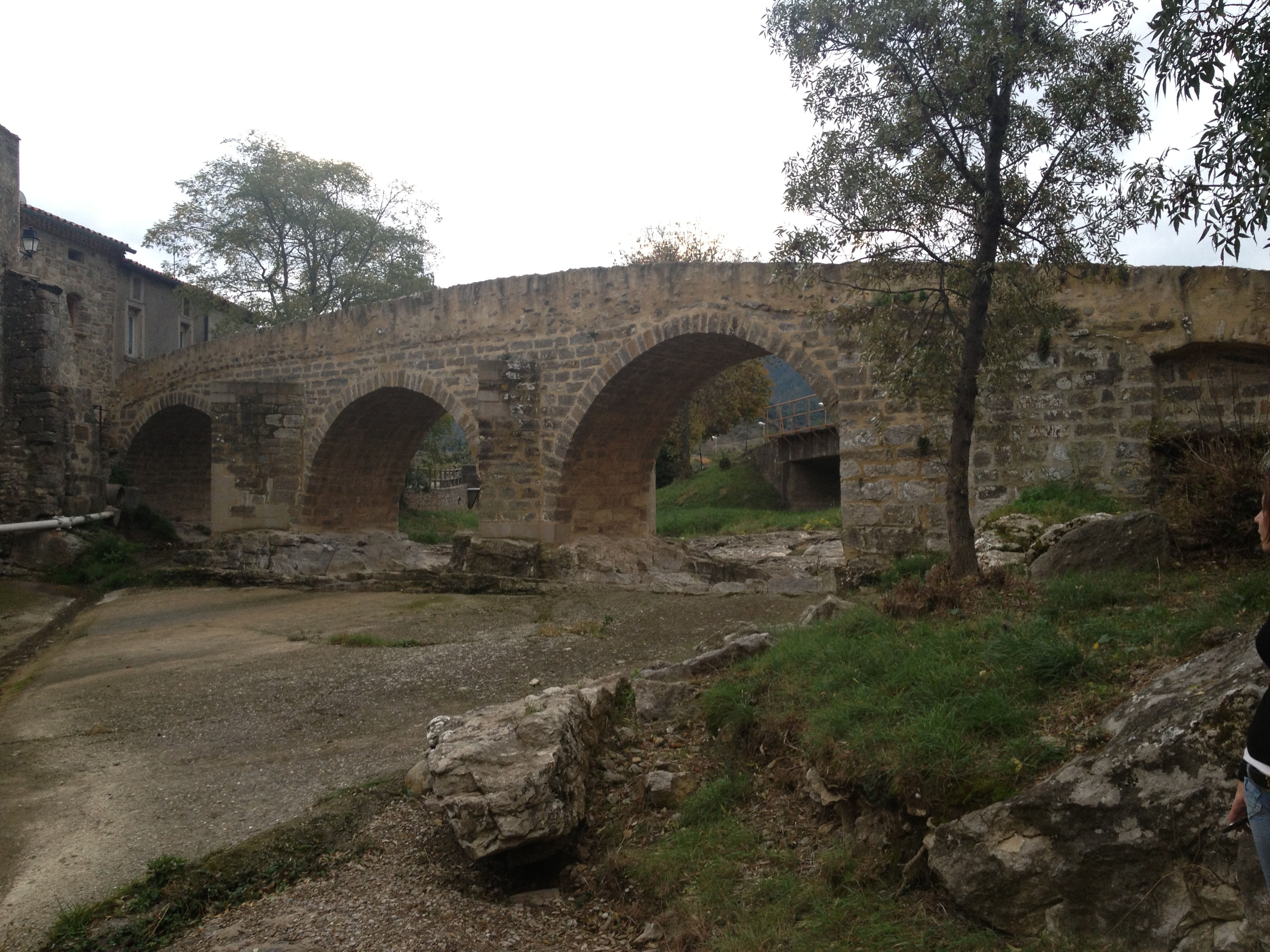 Old bridge on the Bretonne river in Monze